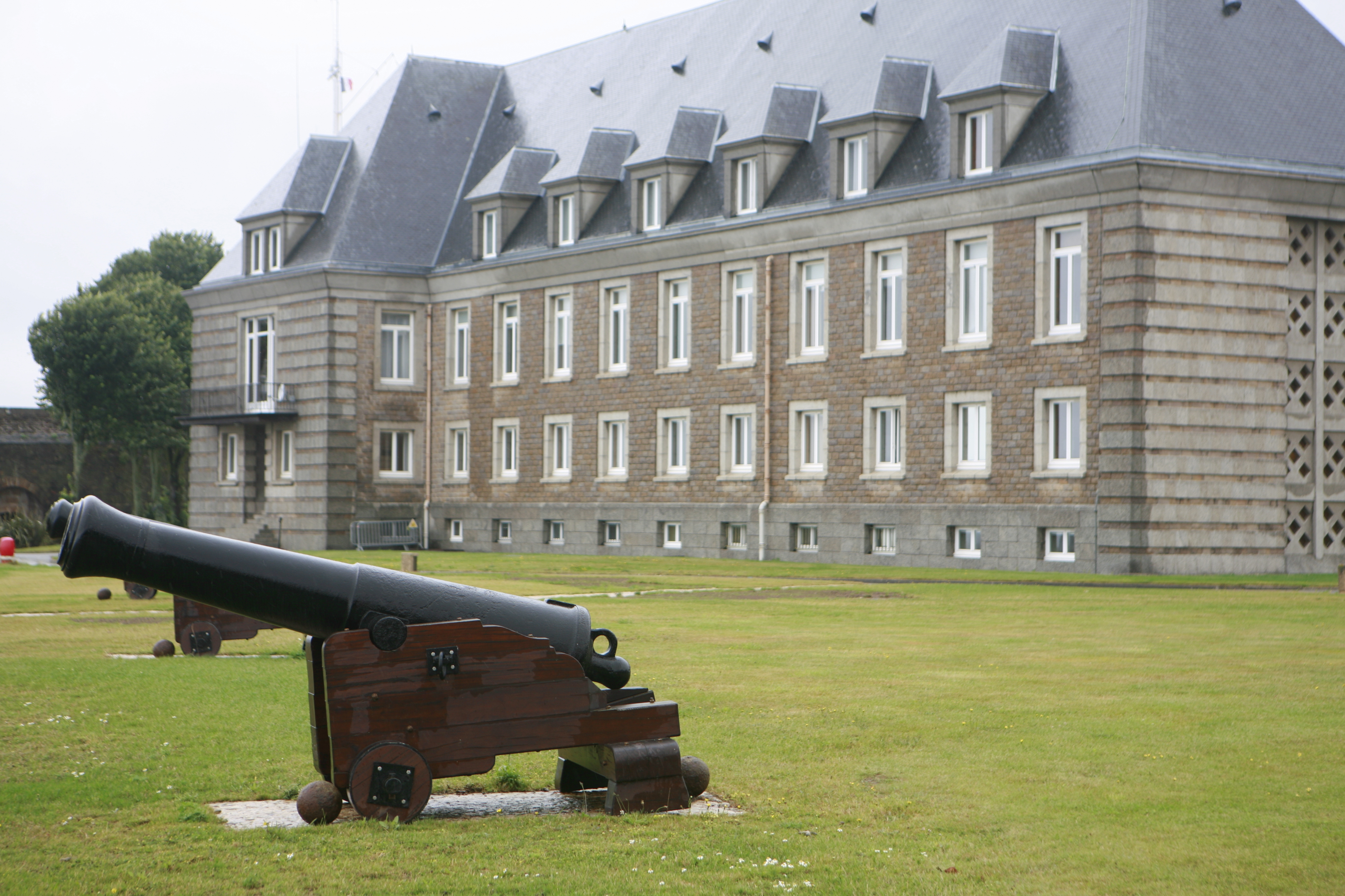 Long guns on display at Brest naval museum